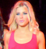 Mollie King performing with The Saturdays in September 2011.